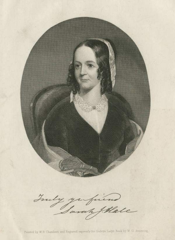 Frontispiece from issue 41 of Godey's Lady's Book (1850) featuring engraving of editor Sarah Josepha Hale.